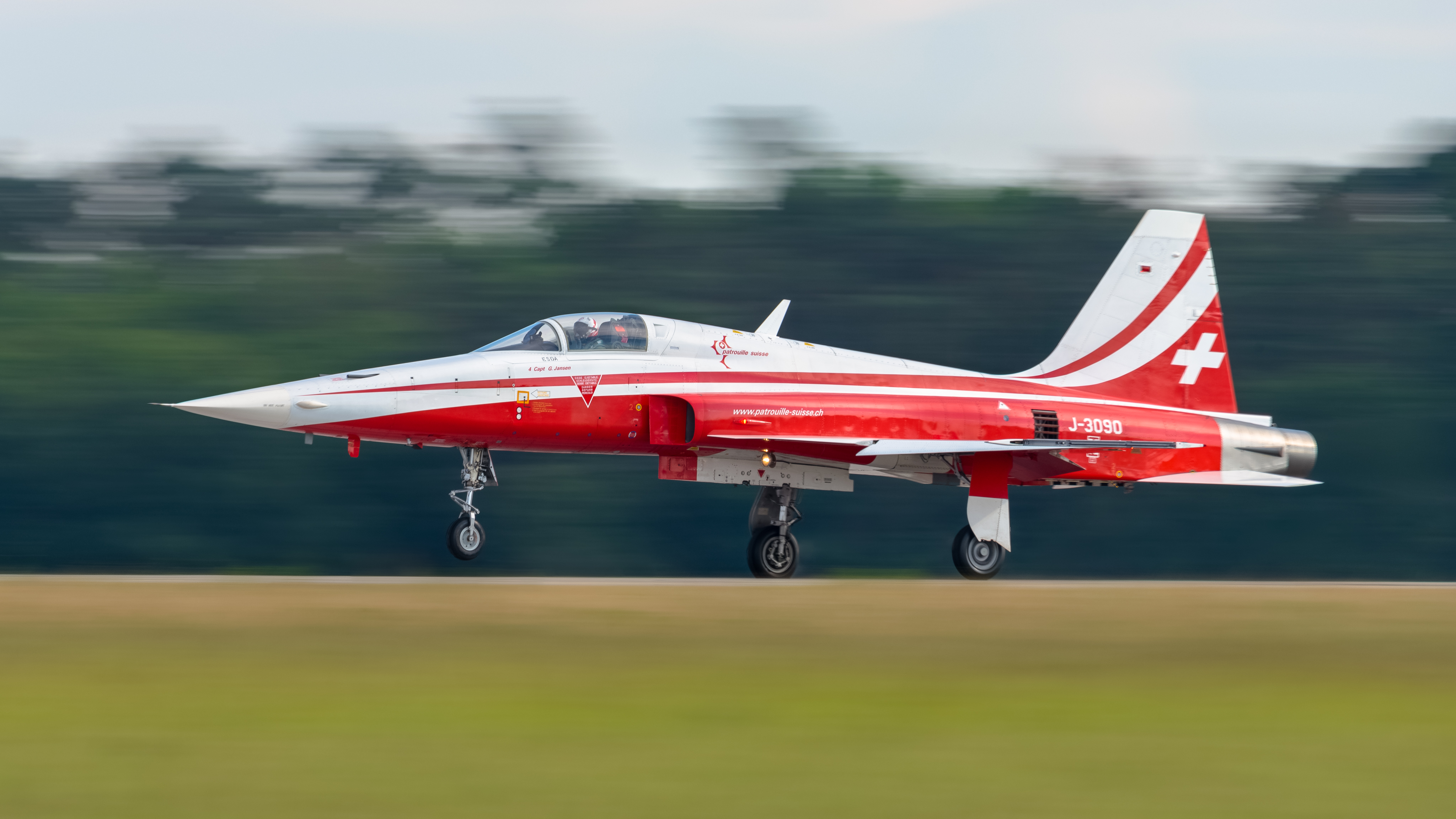 Swiss Air Force/Patrouille Suisse Northrop F-5E Tiger II display team at ILA Berlin Air Show 2016.